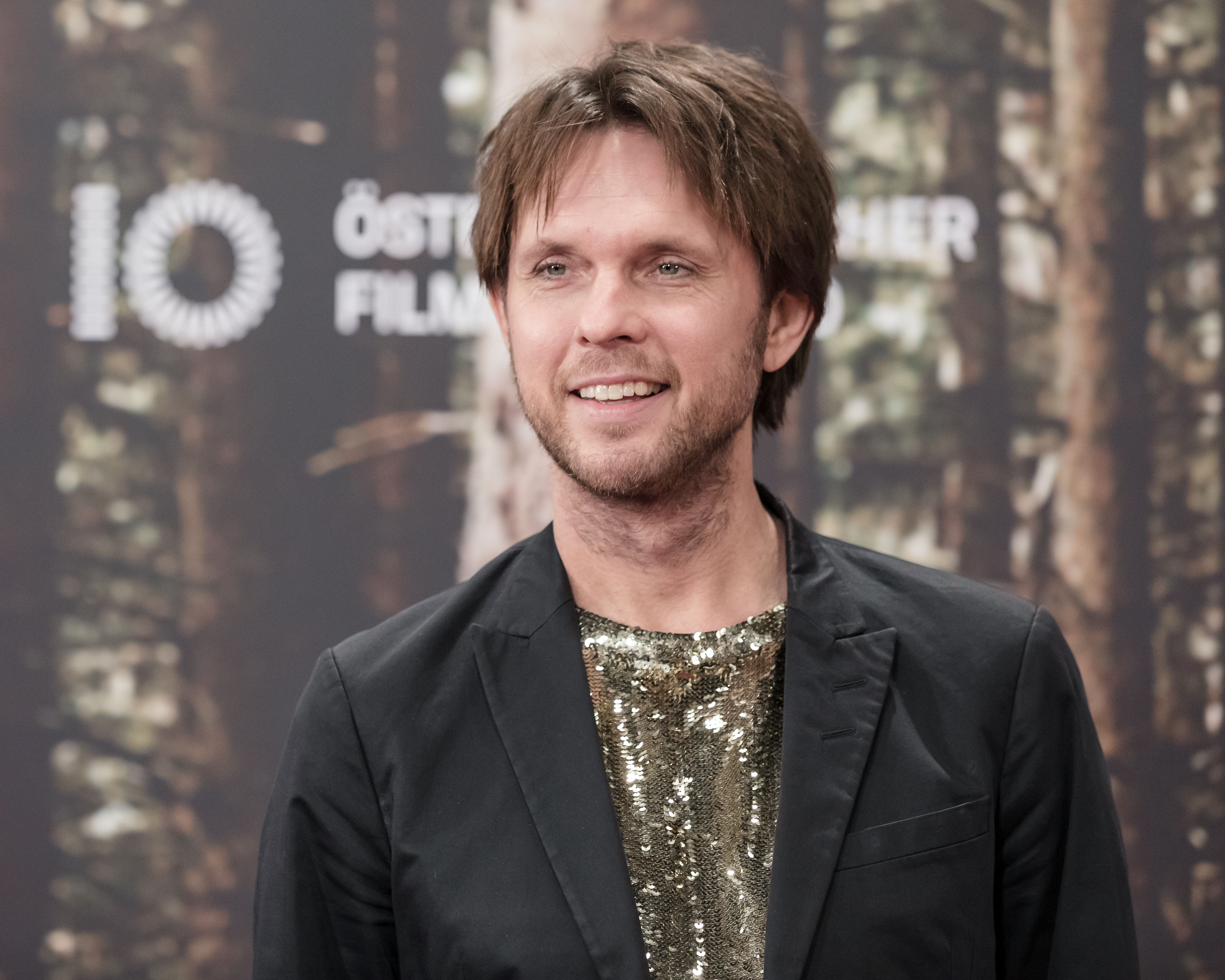 Kyrre Kvam (music The Ground Beneath My Feet) at the Austrian Film Awards 2020 (Auditorium Grafenegg at Grafenegg Castle, Lower Austria,Austria).